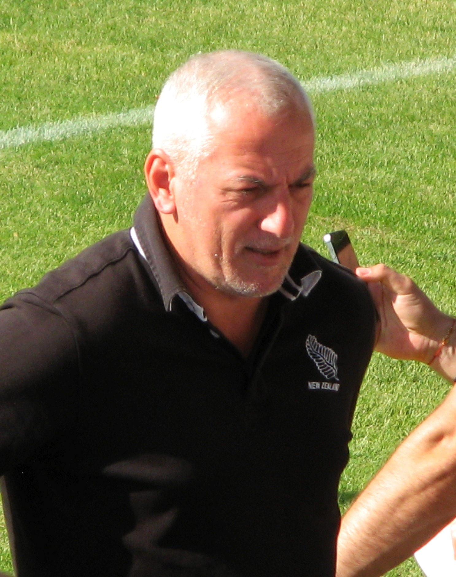 Romania rugby union coach, currently in charge of CSM București, Eugen Apjok, attending a SuperLiga match between Steaua and CSM Baia Mare in 2017